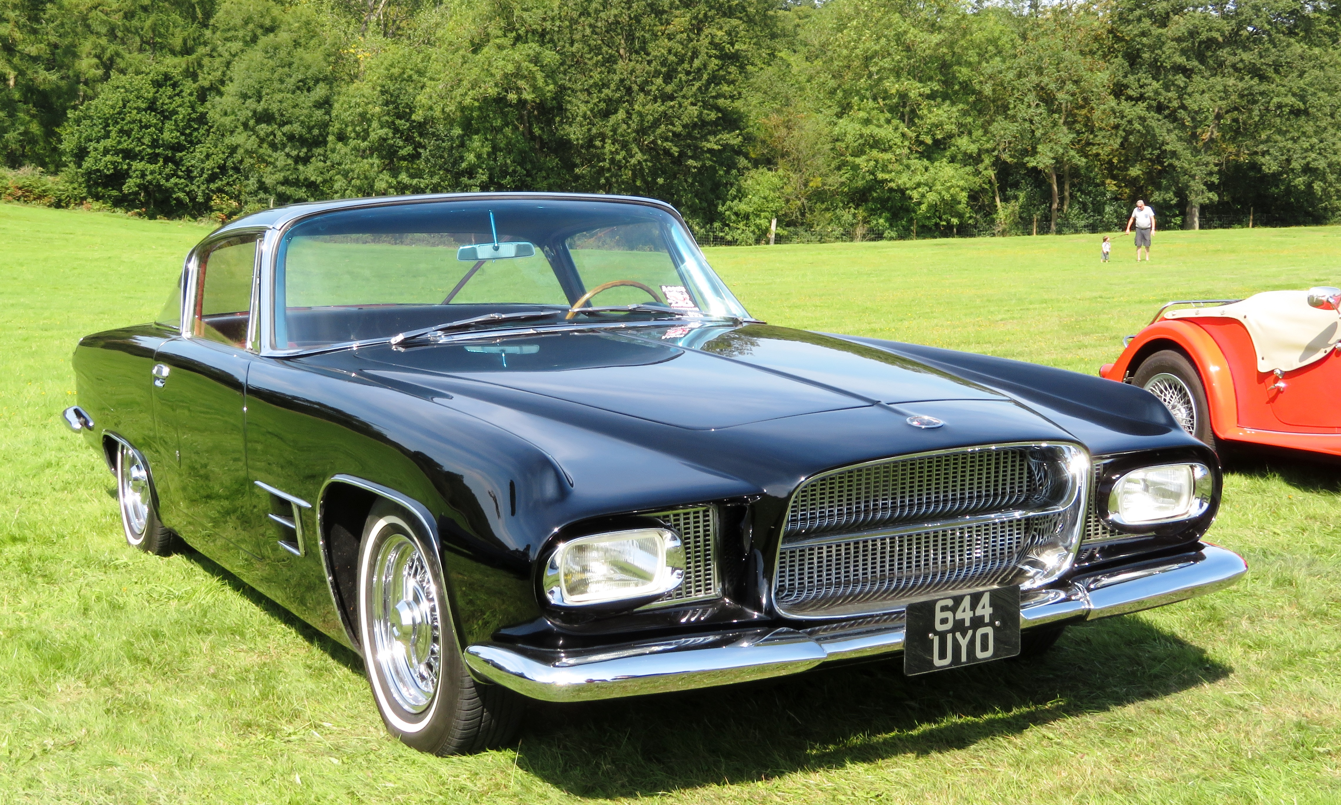 Ghia L6.4 (Chrysler base) mfd 1962